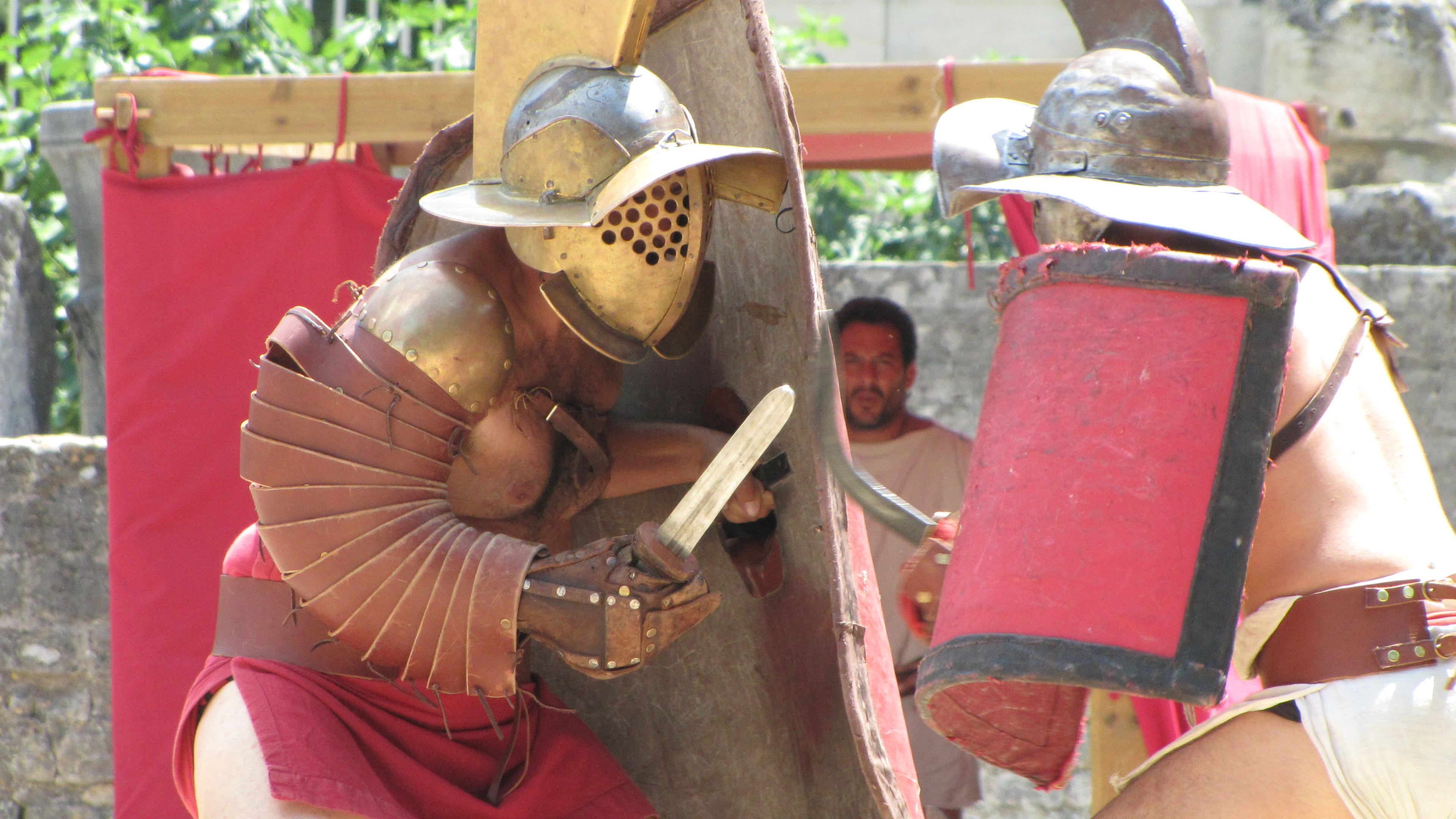 Reenactment of a fight between gladiators in the arena of Arles